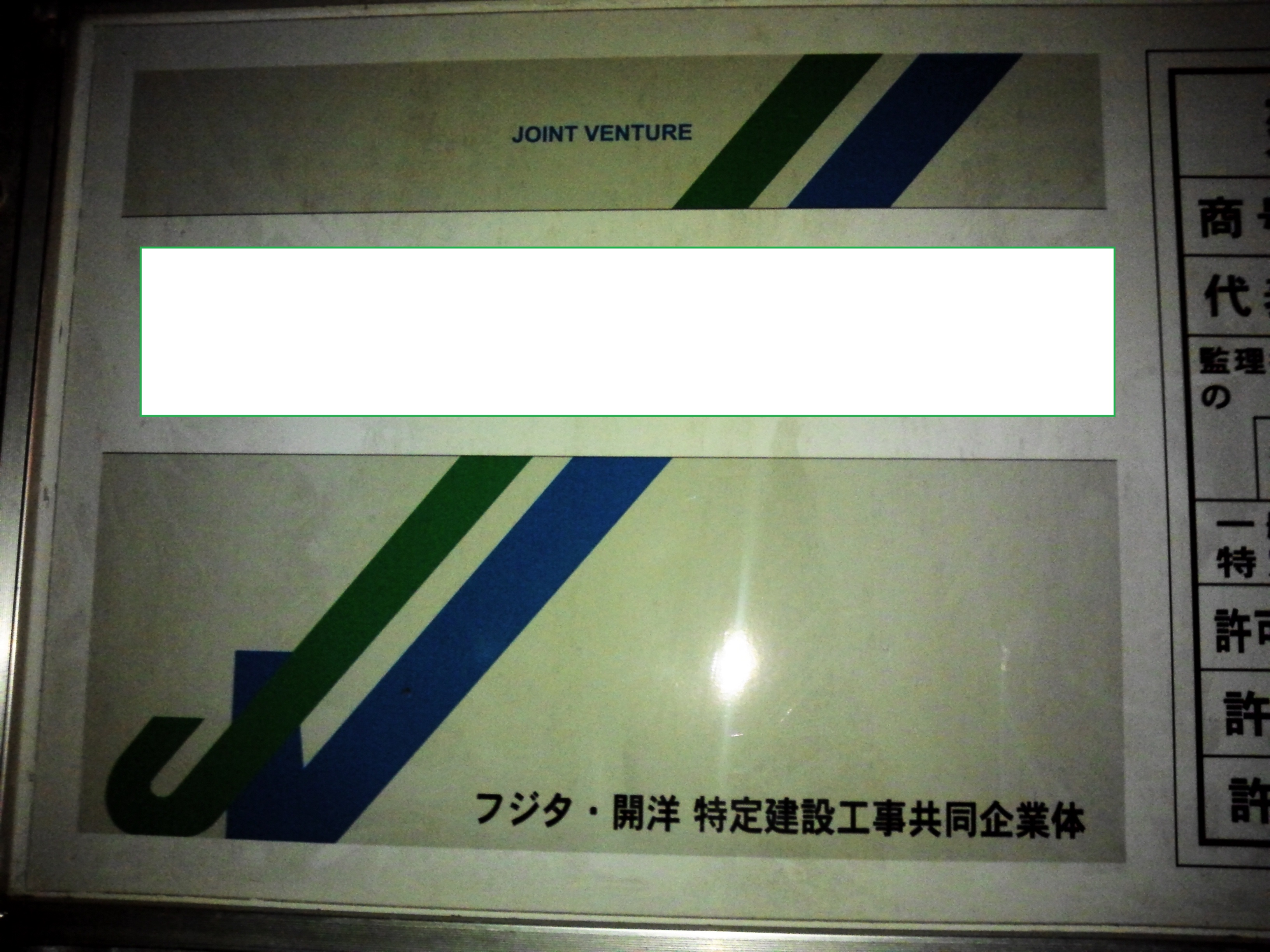 Image relating to some form of "Joint Venture" business